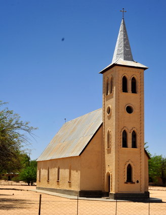 Rhenish Missionary Church (architect: Eduard Hälbich, foundation in 1865 by missionary Hugo Hahn, Inauguration 1867) in Otjimbingwe Namibia, national Monument